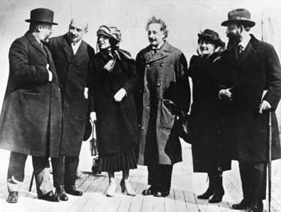 Albert Einstein and "leaders of the World Zionist Organization" published in the USA in 1921. Albert Einstein with his wife Elsa Einstein and other Zionist leaders, Menachem Ussishkin, Chaim Weizmann, Mrs. Vera Weizmann, and Ben-Zion Mossinson on arrival in New York, 1921 with SS Rotterdam.